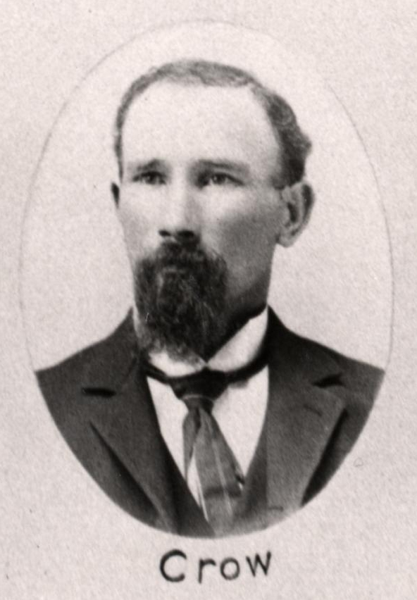 Sen LC Crow